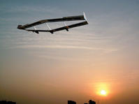 Test Flight of “Green Pioneer I” in 2004